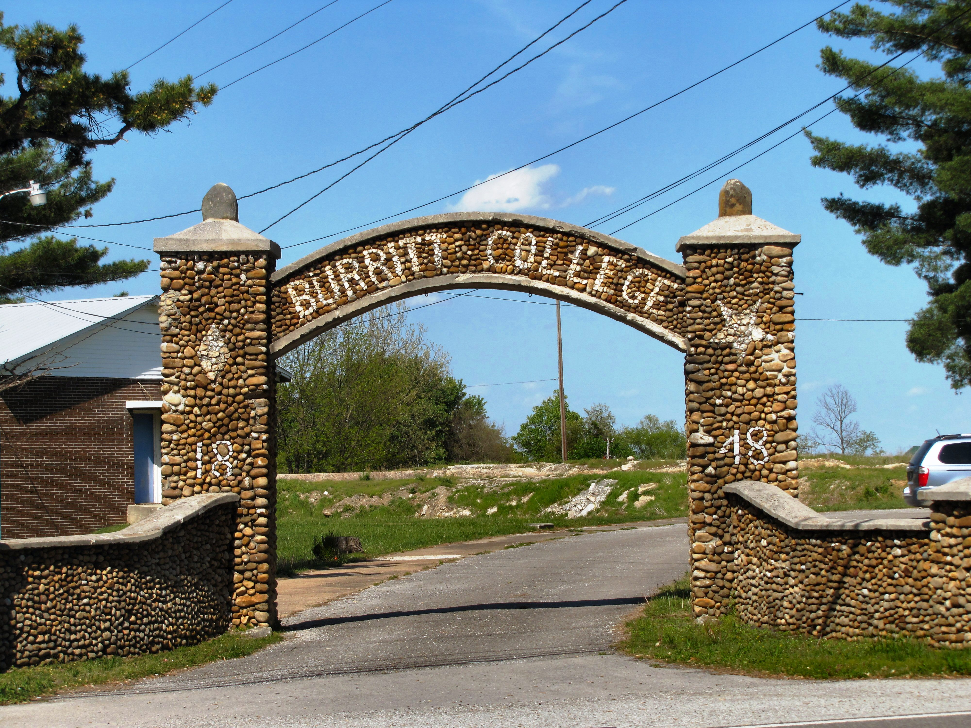 Entrance to the former Burritt College in Spencer, Tennessee, United States